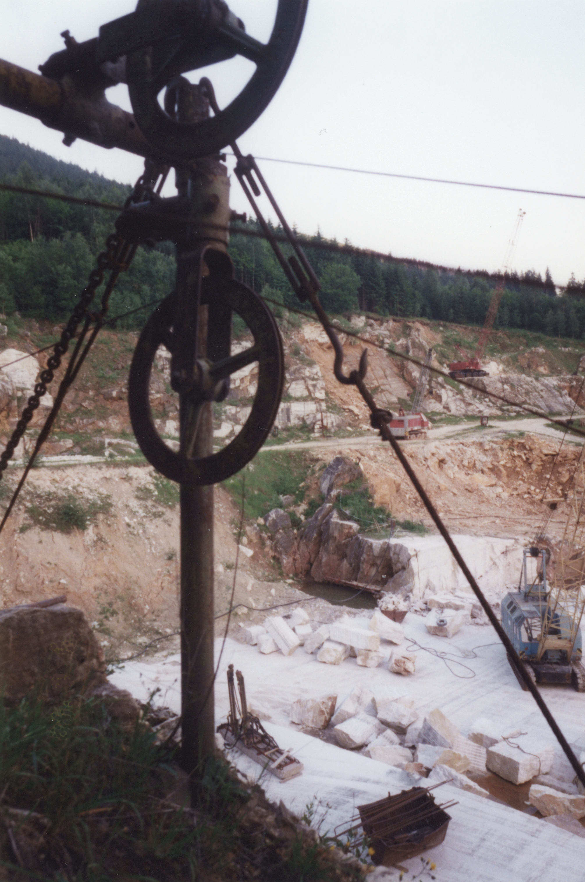 Helicoidal wire saw in a marble quarry